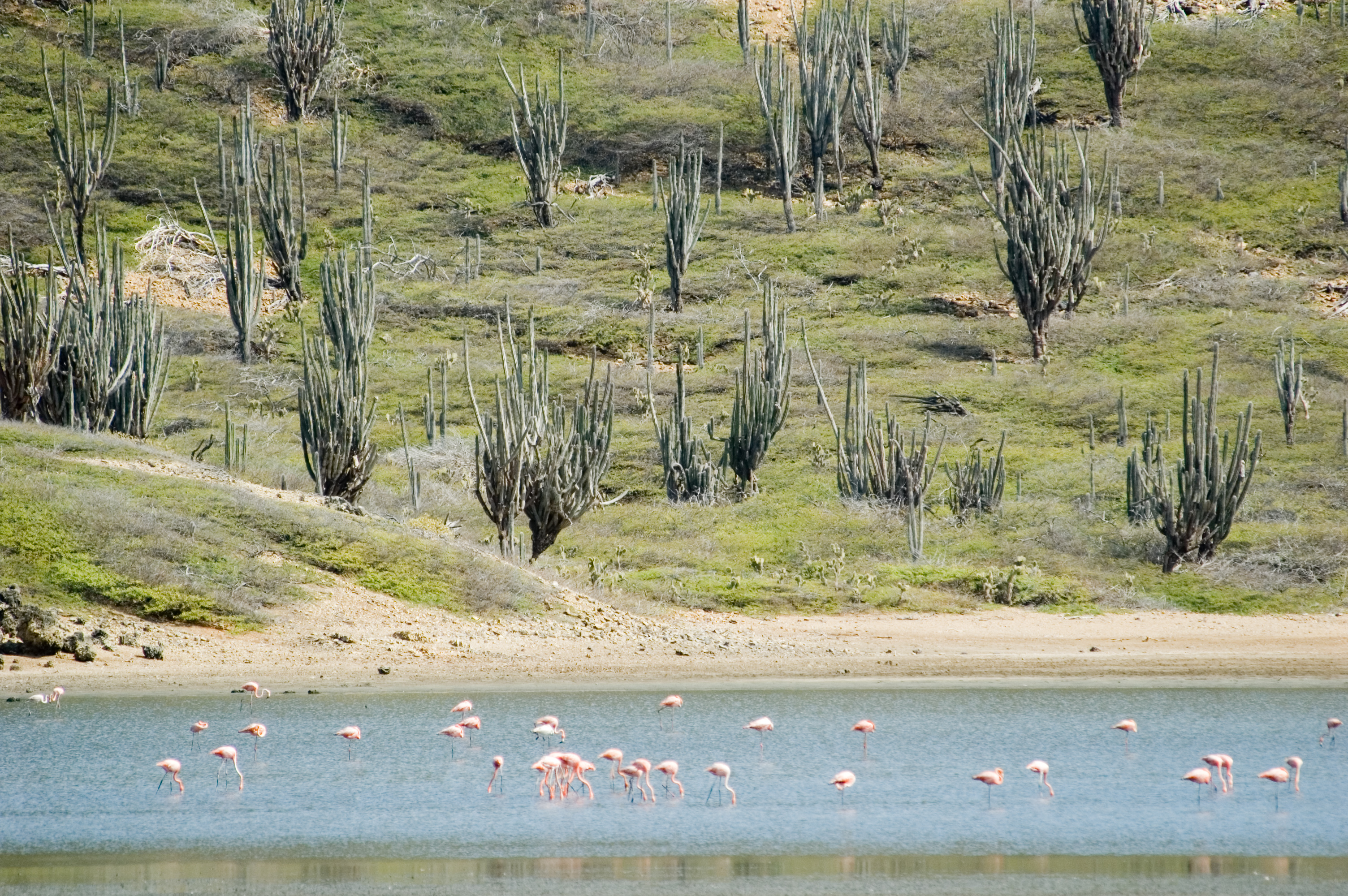 with greater flamingo Phoenicopterus ruber